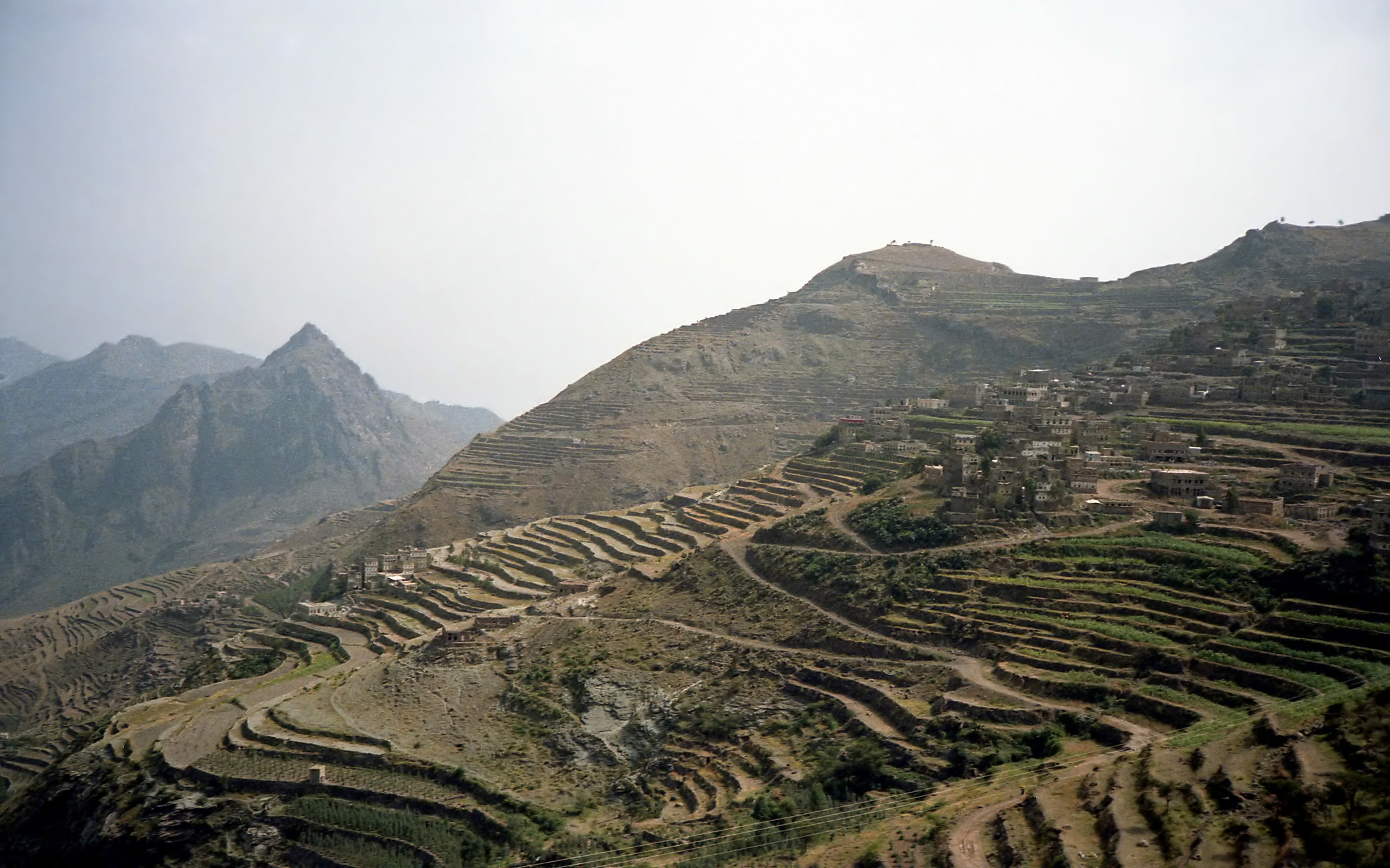 Village of Manakha, Yemen